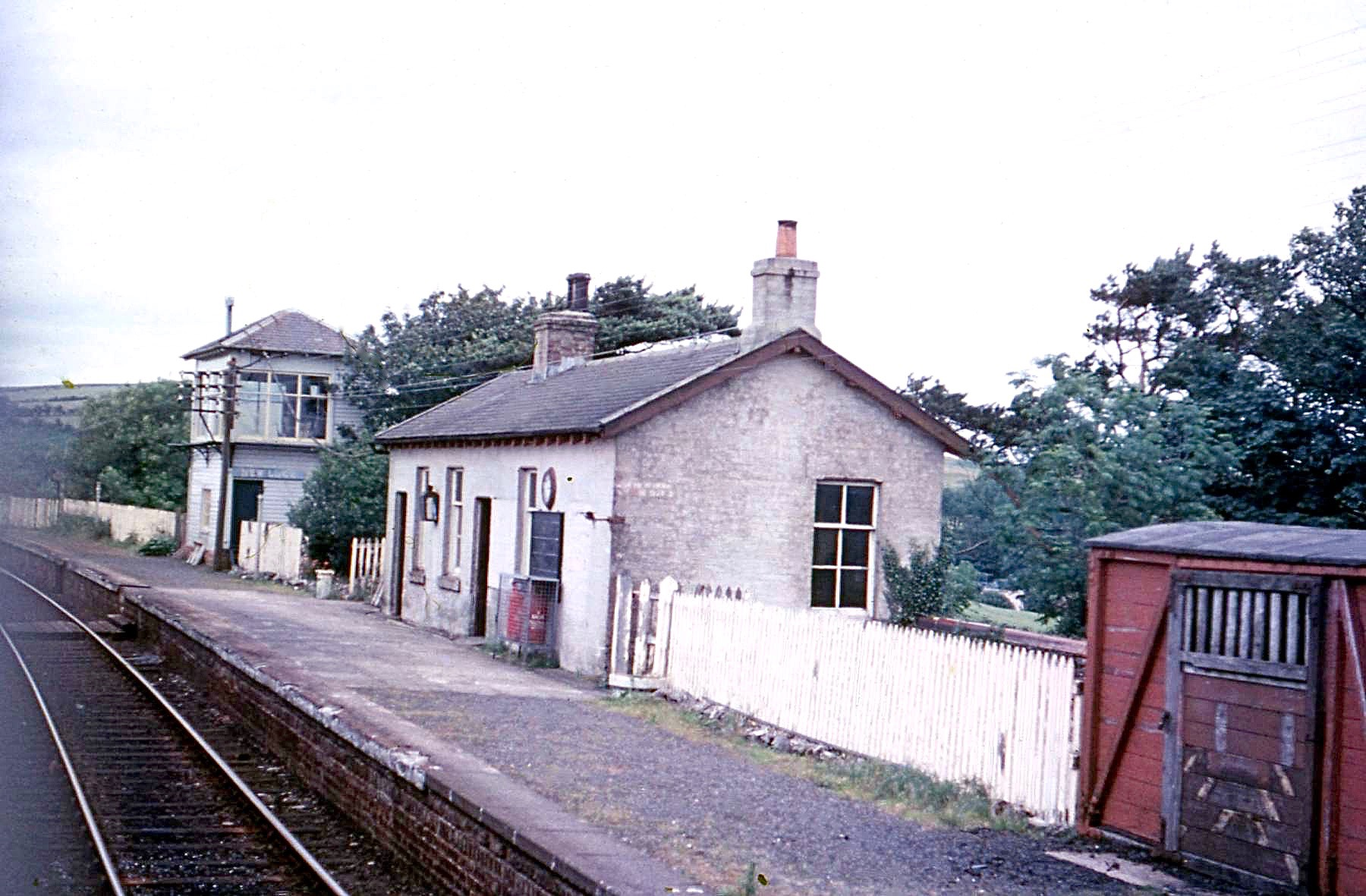 station building and signalbox as seen from a train